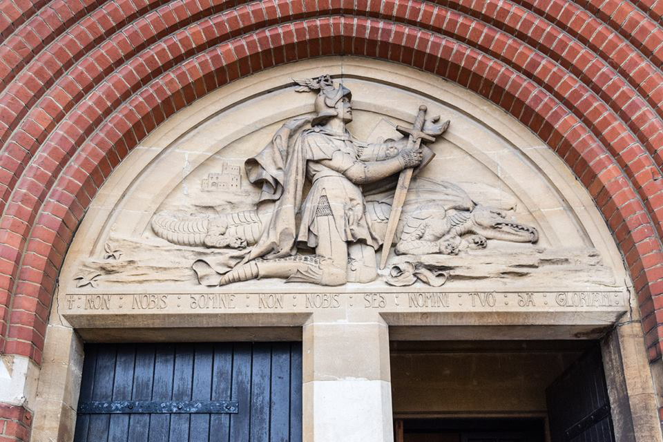 Frieze of St George killing the Dragon over the main doors of the Cathedral of St Michael and St George, Aldershot